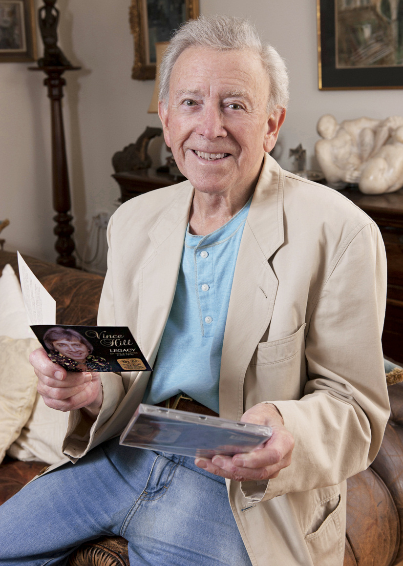 Vince Hill at his Oxfordshire home holding his 55th Anniversary 'Legacy' hits CD.